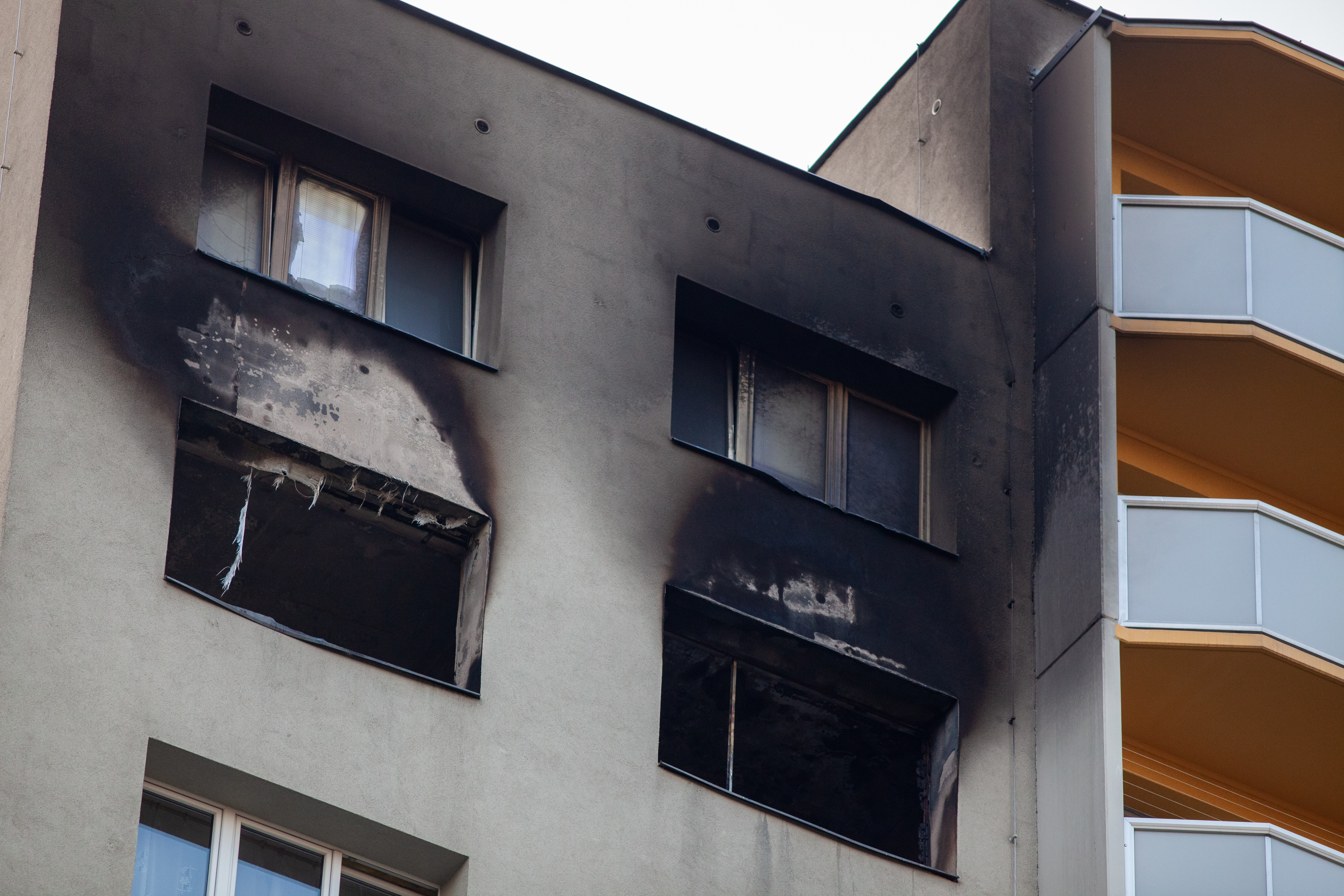 2020 Bohumín arson attack - detail of windows of the burned out flat (east side), Bohumín, Karviná District, Moravian-Silesian Region, Czechia